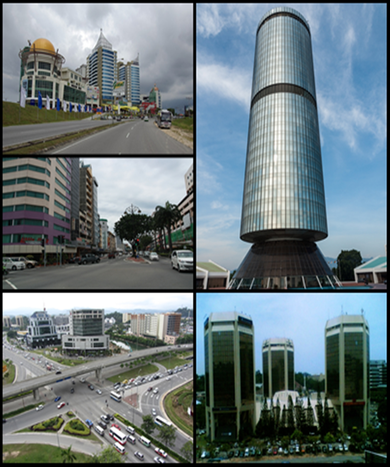 A composite image of icons of Kota Kinabalu from these images. Upload by Stefan Fussan Upload by Cccefalon Upload by Kawaputra Upload by Ranking Update (By Colin ZHU on Flickr) Upload by Ranking Update (By thienzieyung on Flickr)